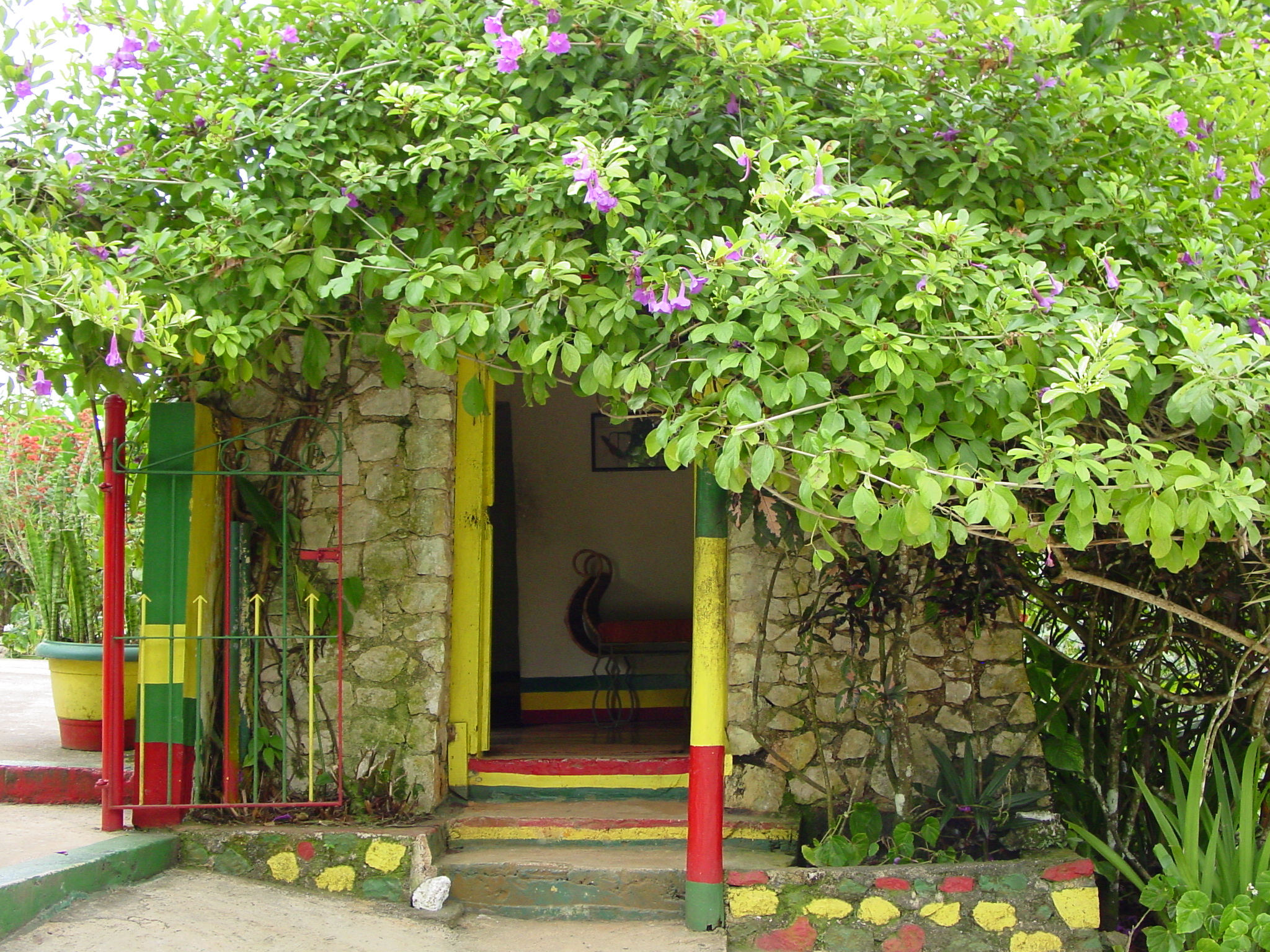 Bob Marley house in Nine Mile, Jamaica. Bob Marley lived in this house when he was young and also returned here many times in his life, but he was born in his mother's house which can be seen from the bar outside the gates. See also: File:Bob Marley house in Nine Mile, Jamaica.jpg